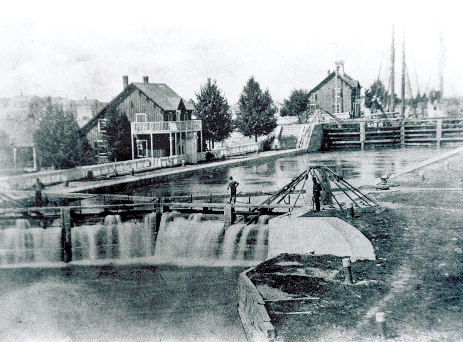 The first Soo Locks, date uncertain.